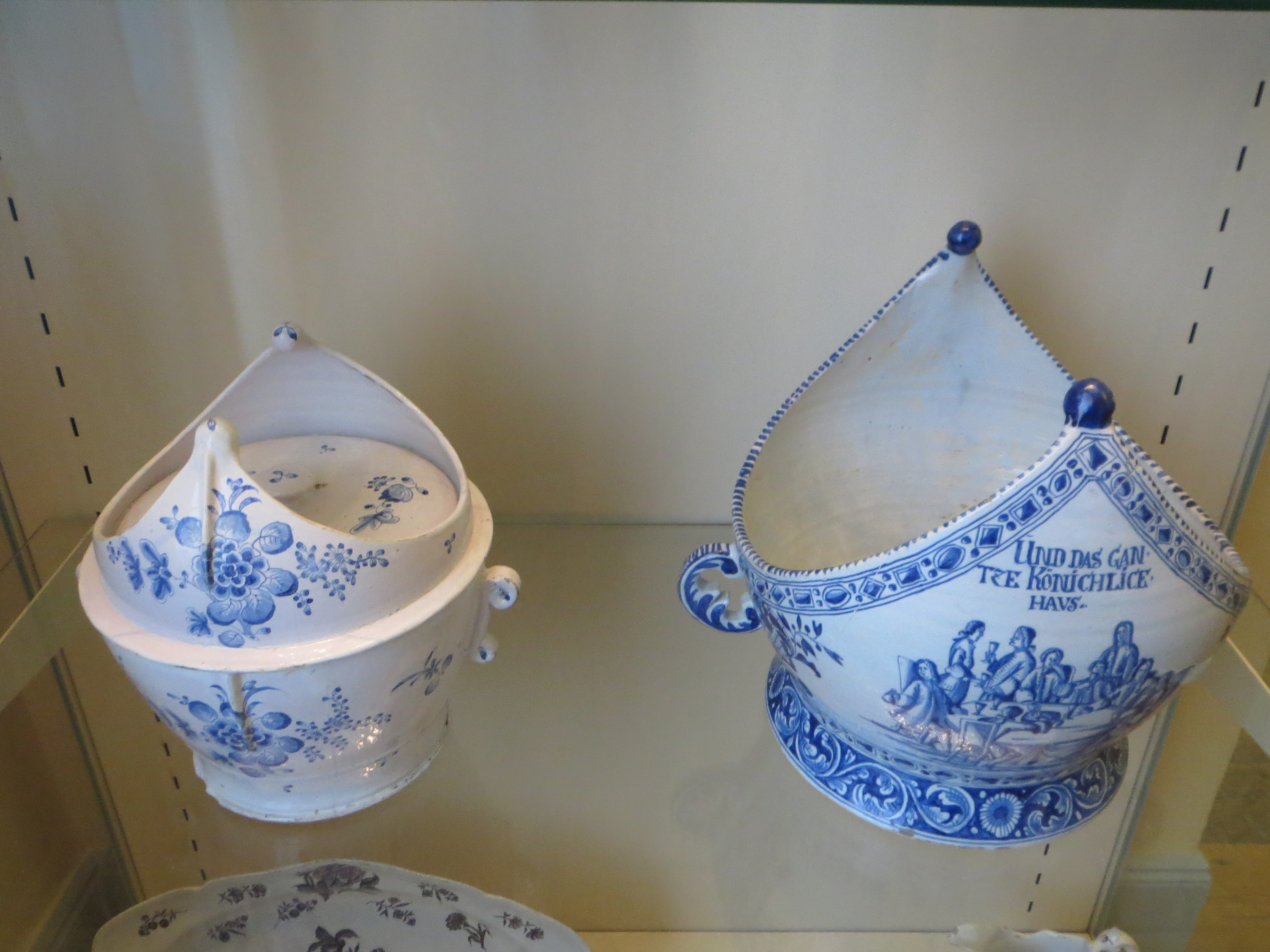 "Bischof" (punch bowl), St. Annenmuseum Lúbeck